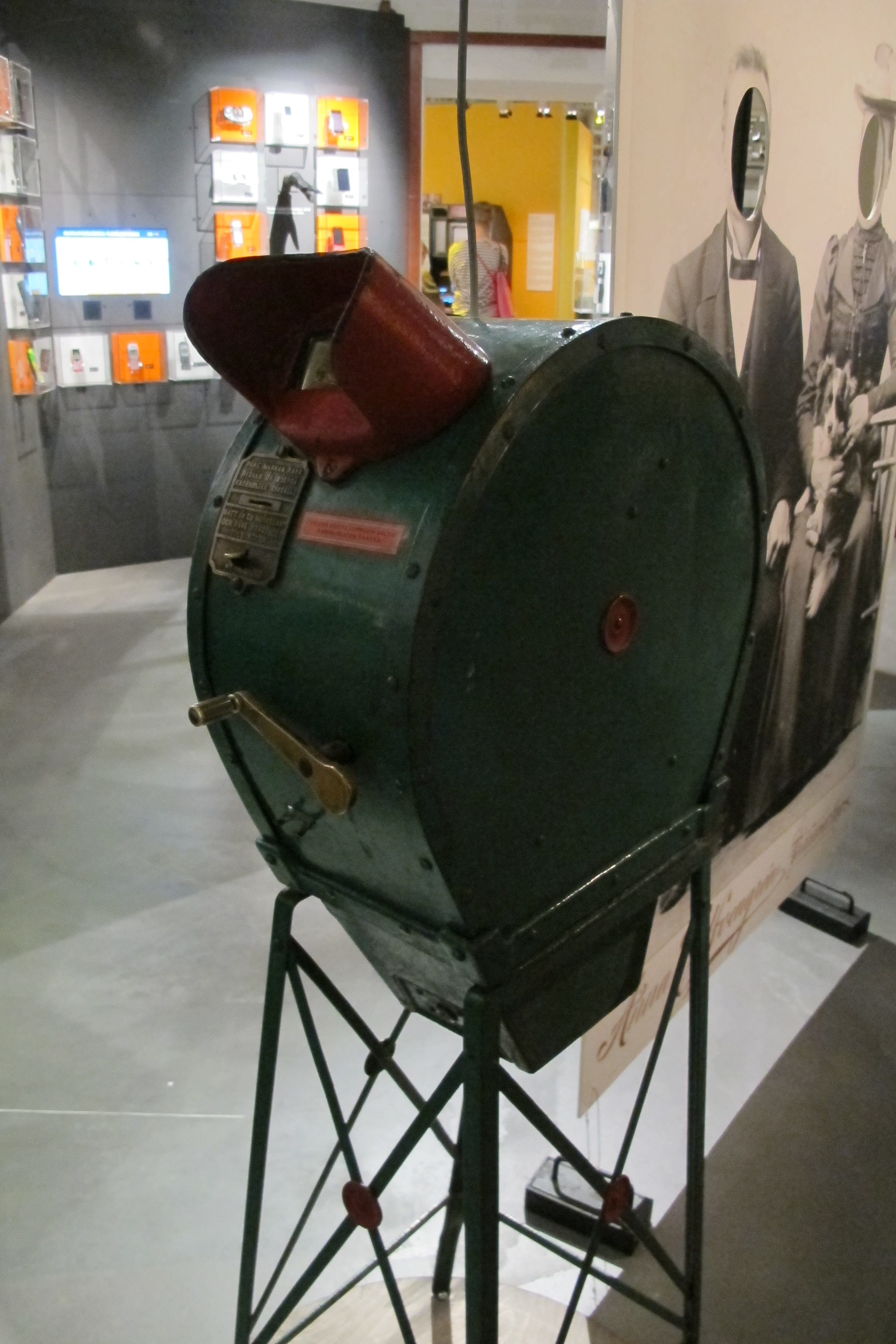 Mutoscope viewer, device on display at Rupriikki Media museum, Tampere, Finland.